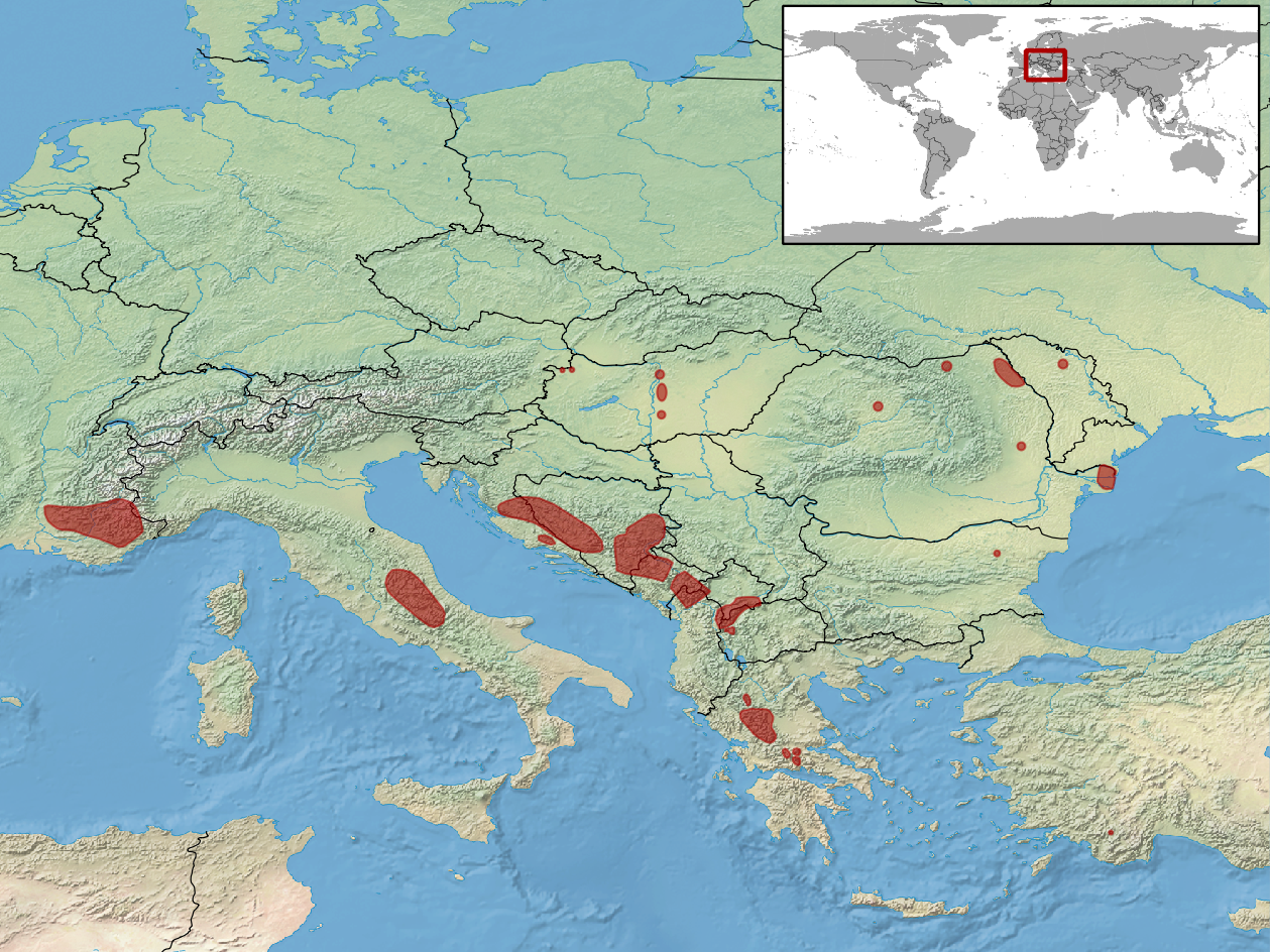 geographic distribution of Vipera ursinii including V. u. anatolica (Native: Albania; Bosnia and Herzegovina; Croatia; France; Greece; Hungary; Italy; Macedonia, the former Yugoslav Republic of; Montenegro; Romania; Serbia (Serbia); Turkey / Possibly extinct: Moldova / Regionally extinct: Austria; Bulgaria)